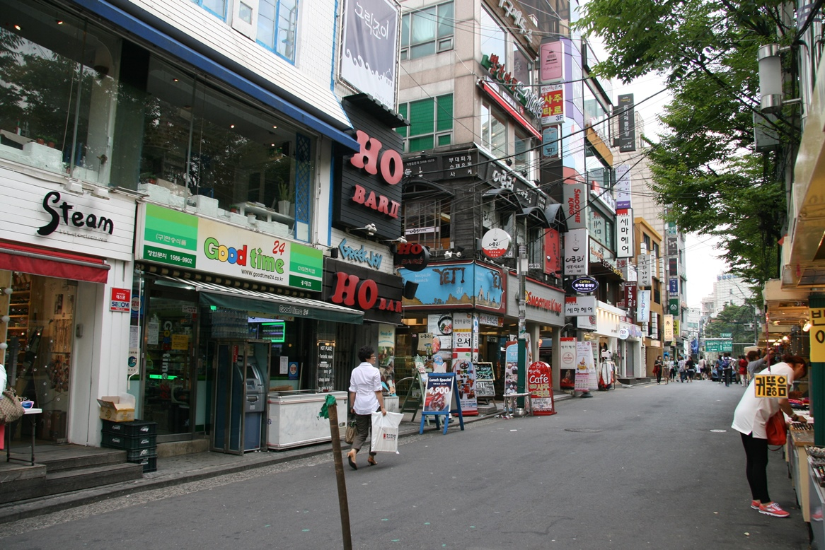 Shops on Wausan-ro 21-gil opposite Hongdae Playground (or Hongik Children's Park) in Hongdae, Mapo-gu, Seoul in 2012